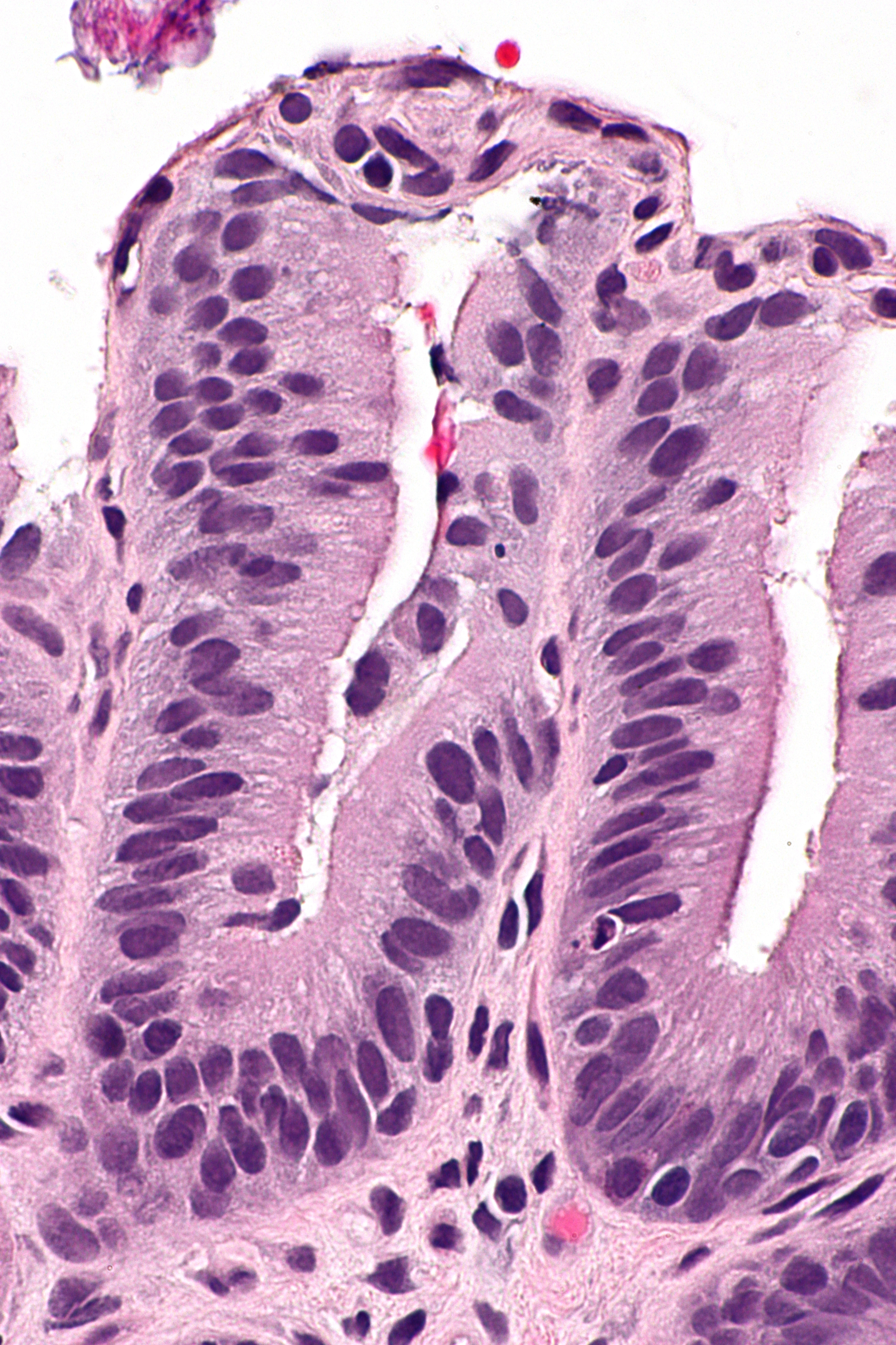 Micrograph showing low grade columnar eosphageal dysplasia, also known as low grade dysplasia. H&E stain. It classically arises in the context of Barrett's esophagus. Related images LGD - low mag. LGD - intermed. mag. LGD - high mag. LGD - very high mag.